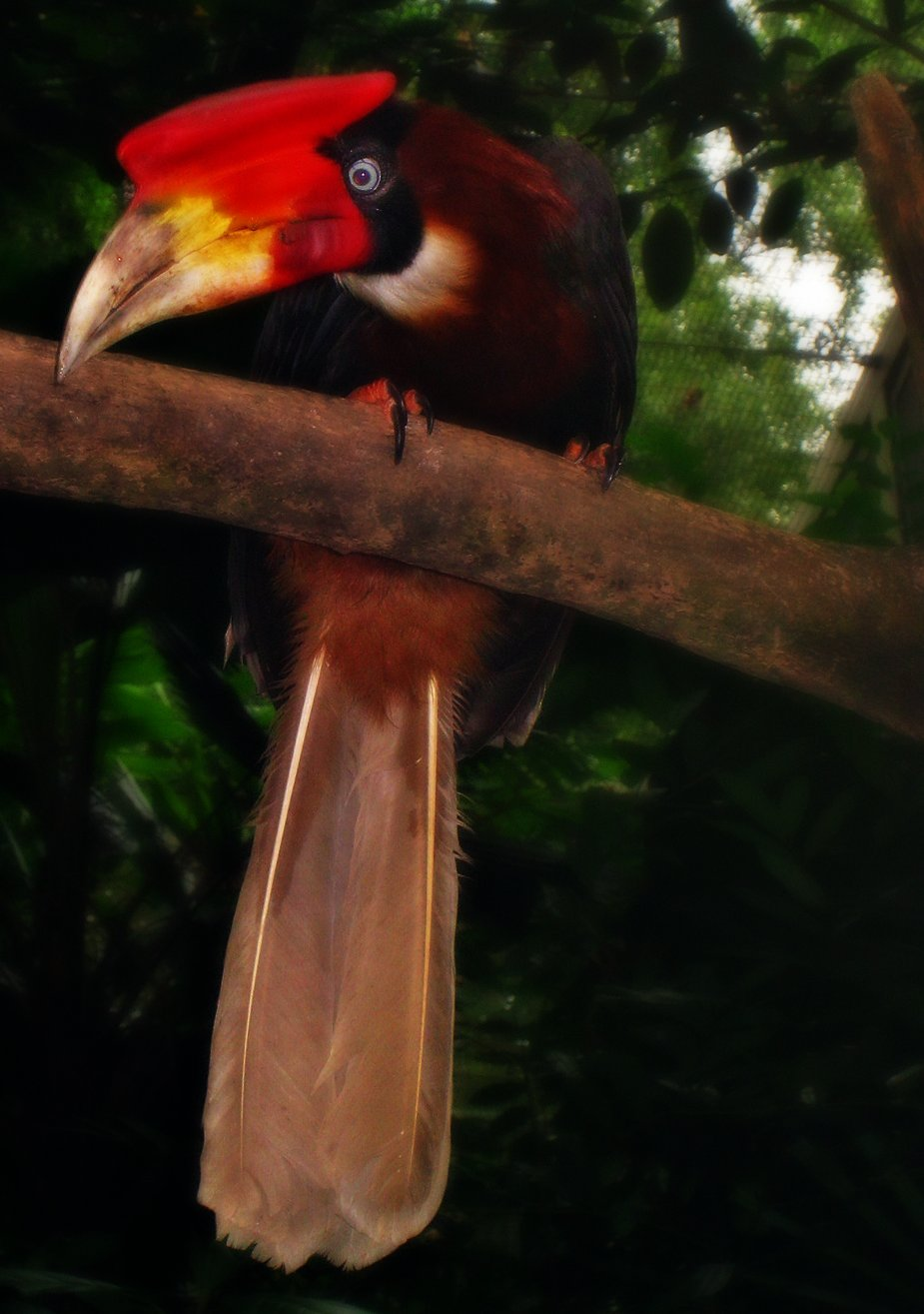 A female Rufous Hornbill in captivity.